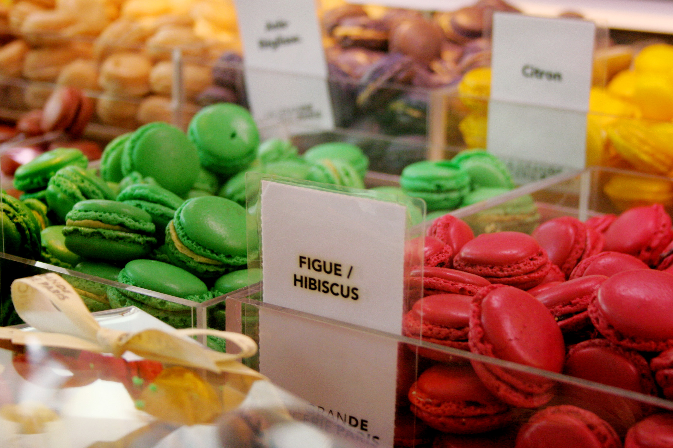 Macarons sold at La Grande Epicerie shop in Paris, France